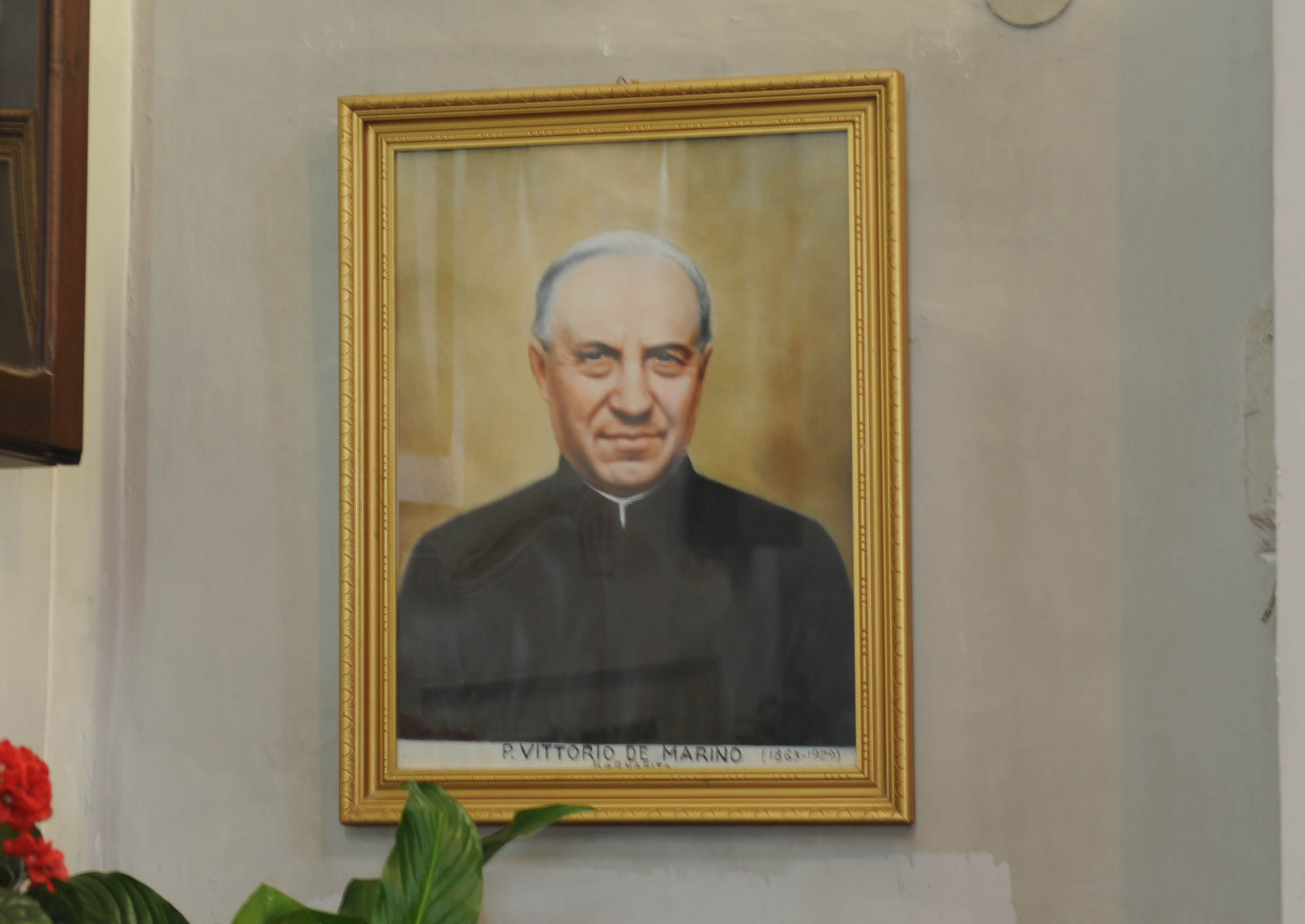 This picture of Vittorio De Marino can be observed on the right hand side of the entrance of S. Giovanni Evangelista's Church in San Felice a Cancello (Ce) Italy